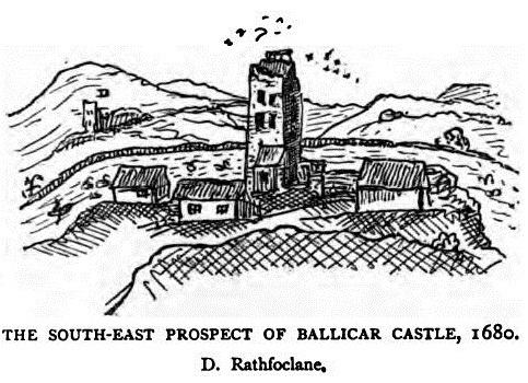 Drawing of the south-east prospect of Ballicar Castle by Thomas Dineley in 1680